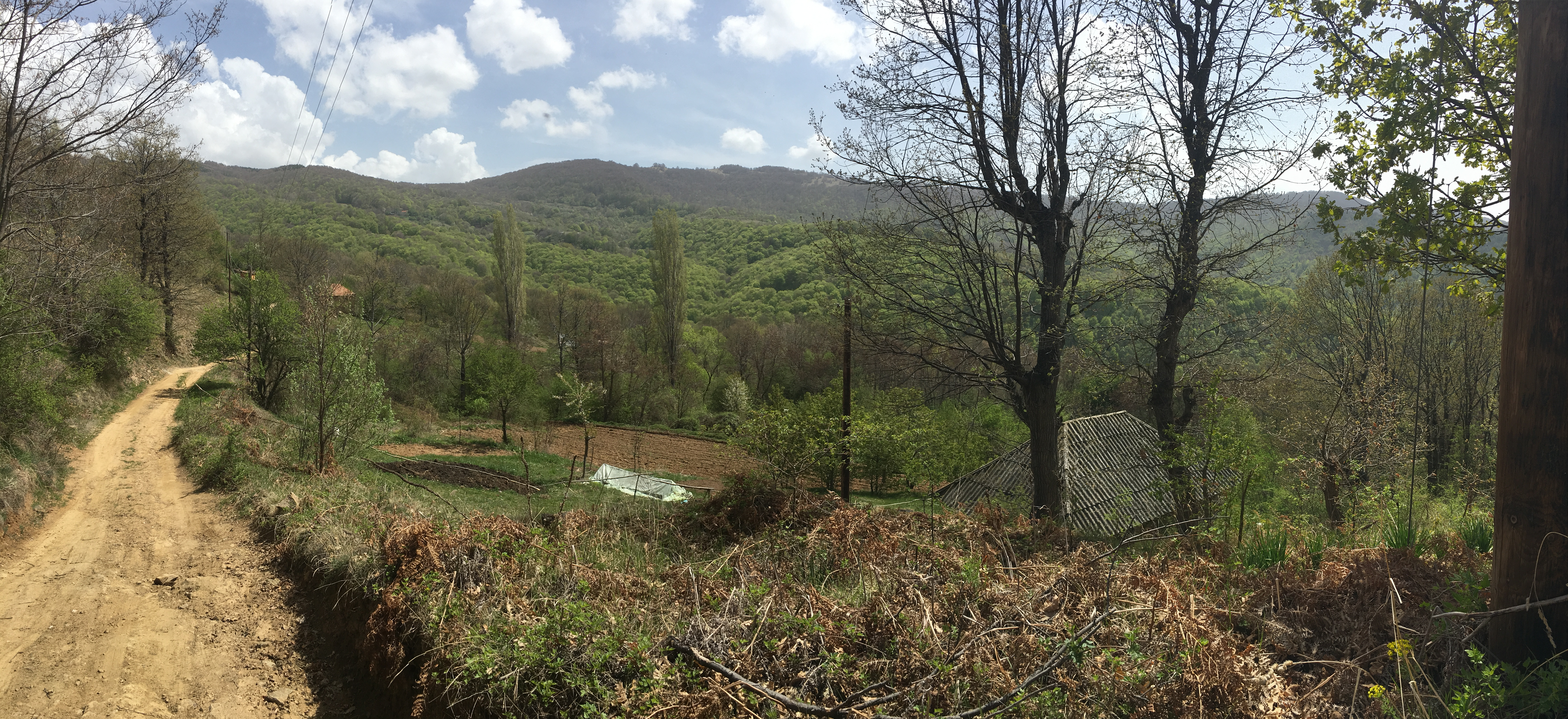 A panoramic view of the village of Borovo